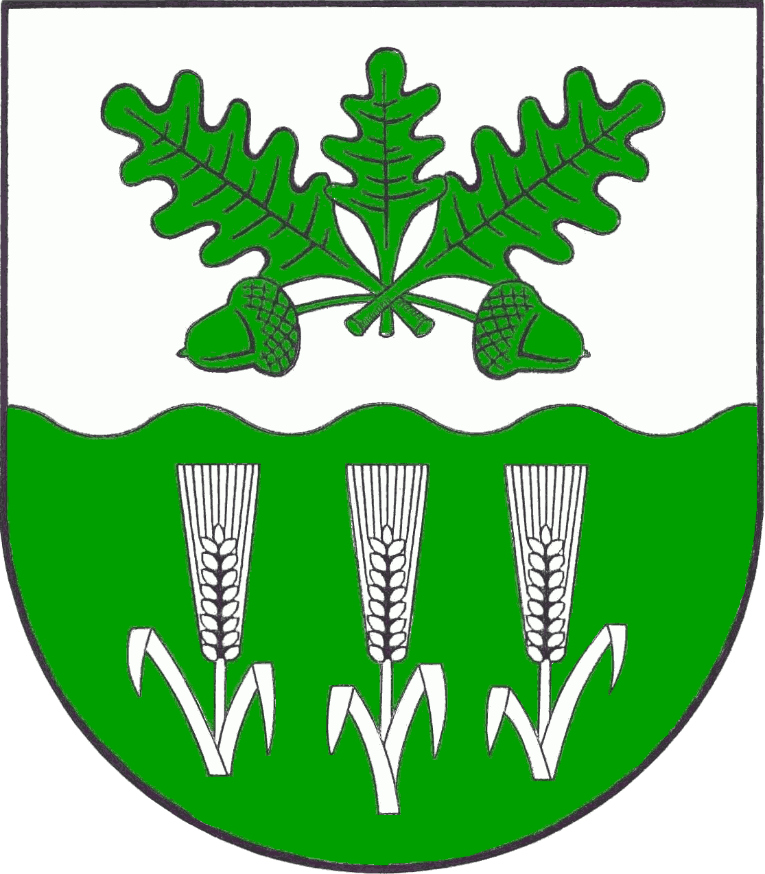 Coat of arms of the municipality Groß Rheide in Schleswig-Holstein, Germany.